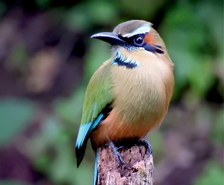 Birds observed within the Karen Mogensen Reserve. Eumomota superciliosa (Momotidae), species that reach their southernmost range border approximately in the surveyed zone.